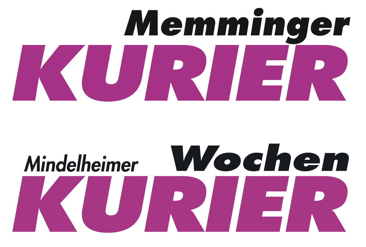 Logo KURIER VERLAG GmbH